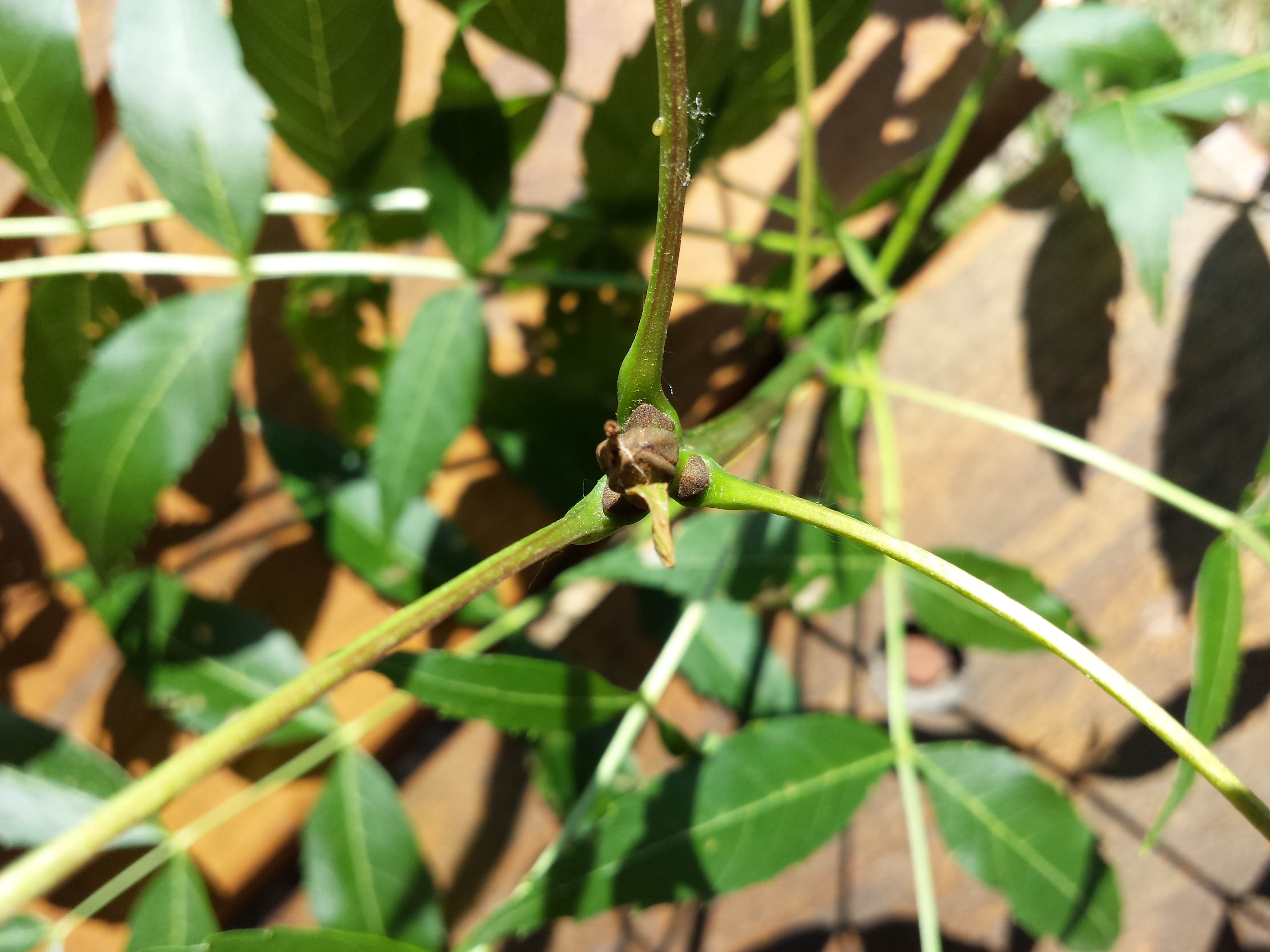 Branch Taxonym: Fraxinus angustifolia subsp. danubialis ss Fischer et al. EfÖLS 2008 ISBN 978-3-85474-187-9; det. Gergely Király 2015-06-04 Location: wood to the east of Lenti, Zala County, Hungary - ca. 170 m a.s.l. Habitat: wood of Quercus robur and Carpinus betulus